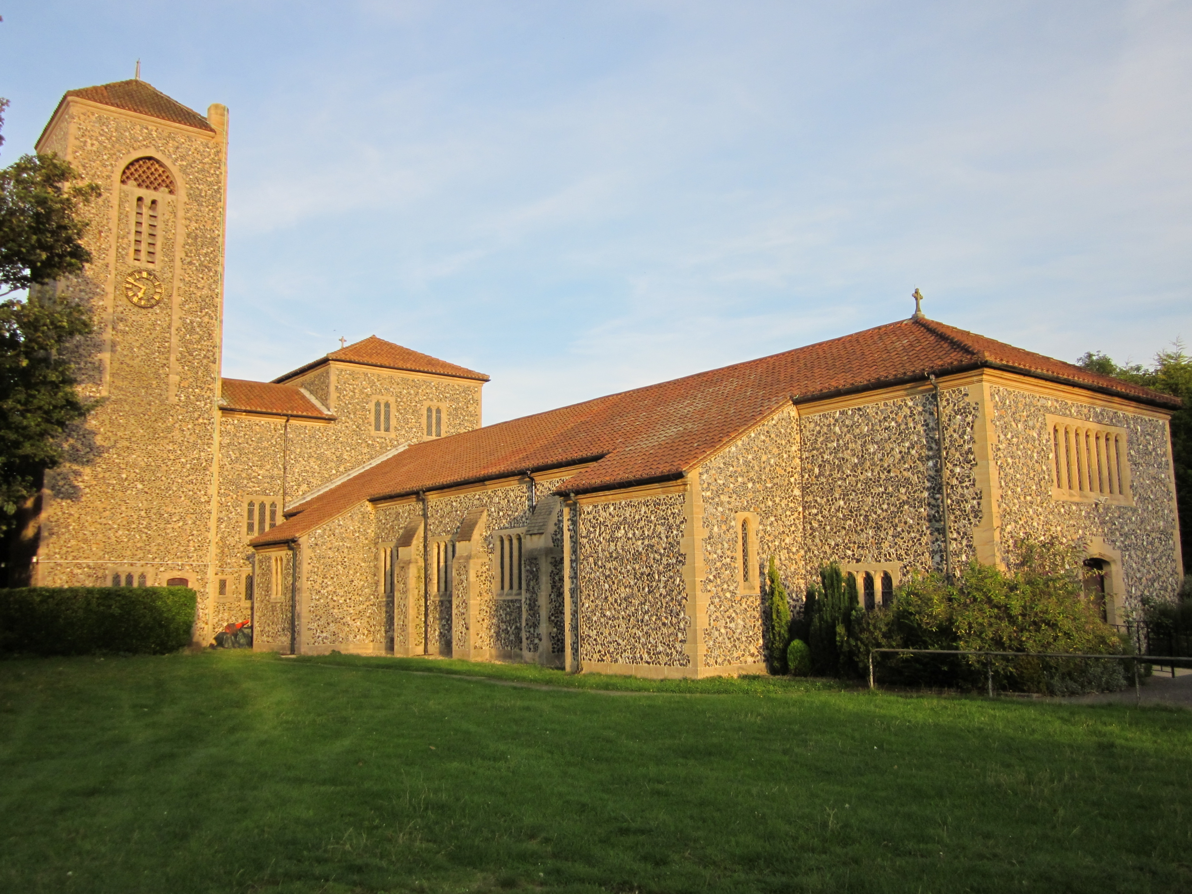 The Catholic church of Our Lady, Star of the Sea is located at 17 Broadstairs Road, St Peter's, Broadstairs, Kent, England. It was designed by Giles Gilbert Scott in 1930 and is named for the Shrine of Our Lady, Bradstowe, a former landmark overlooking Broadstairs harbour.